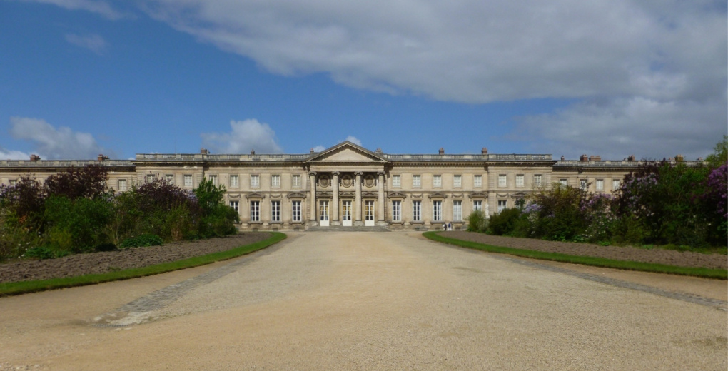 Château de Compiègne, garden façade, France.